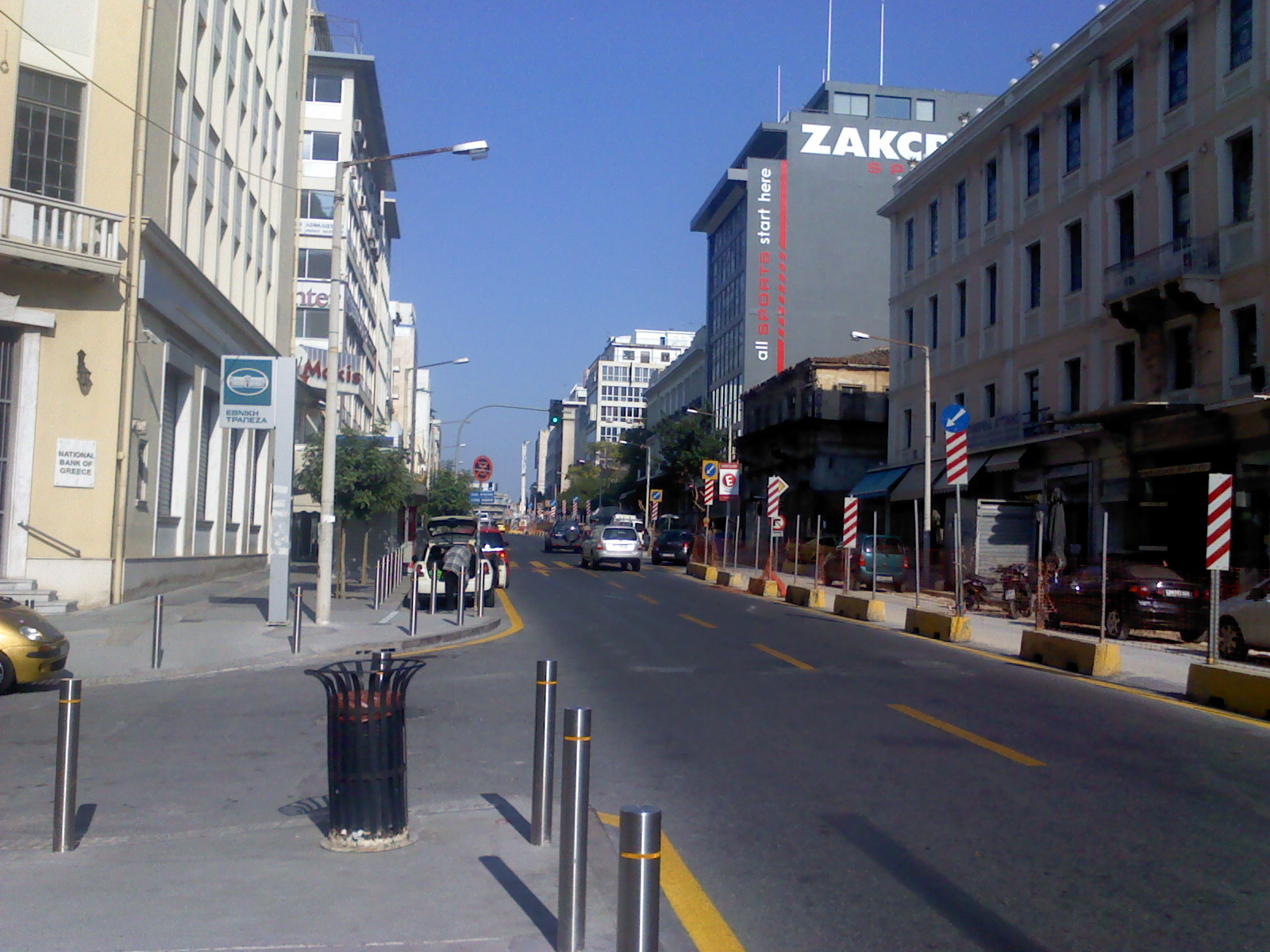 Rue Gounari Pireas